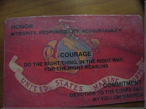 Image of United States Marine Corps' "Honor Courage and Commitment" card.